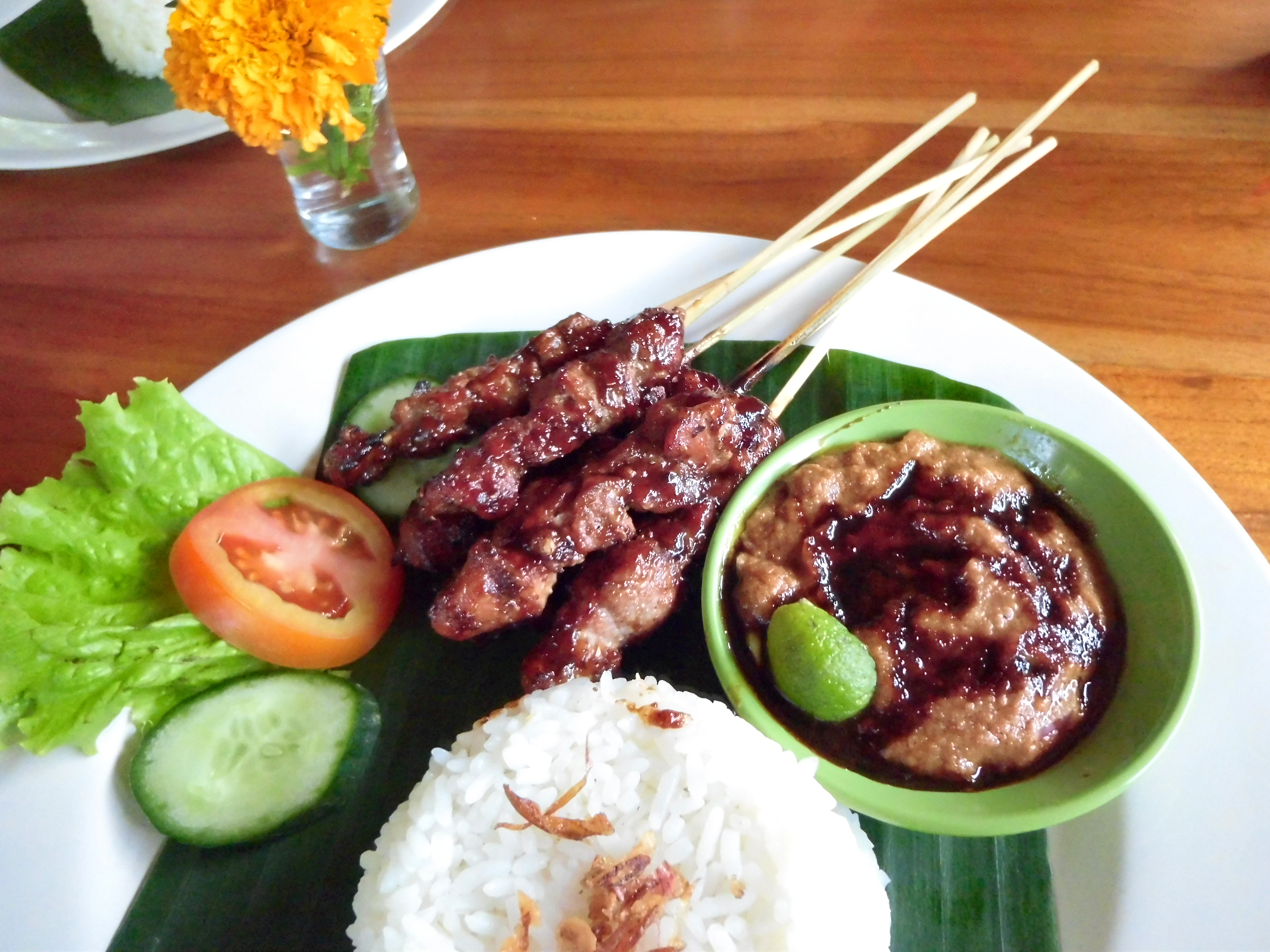 Balinese Sate Babi (pork satay in peanut sauce) served in a nice restaurant in Ubud, Bali, Indonesia.